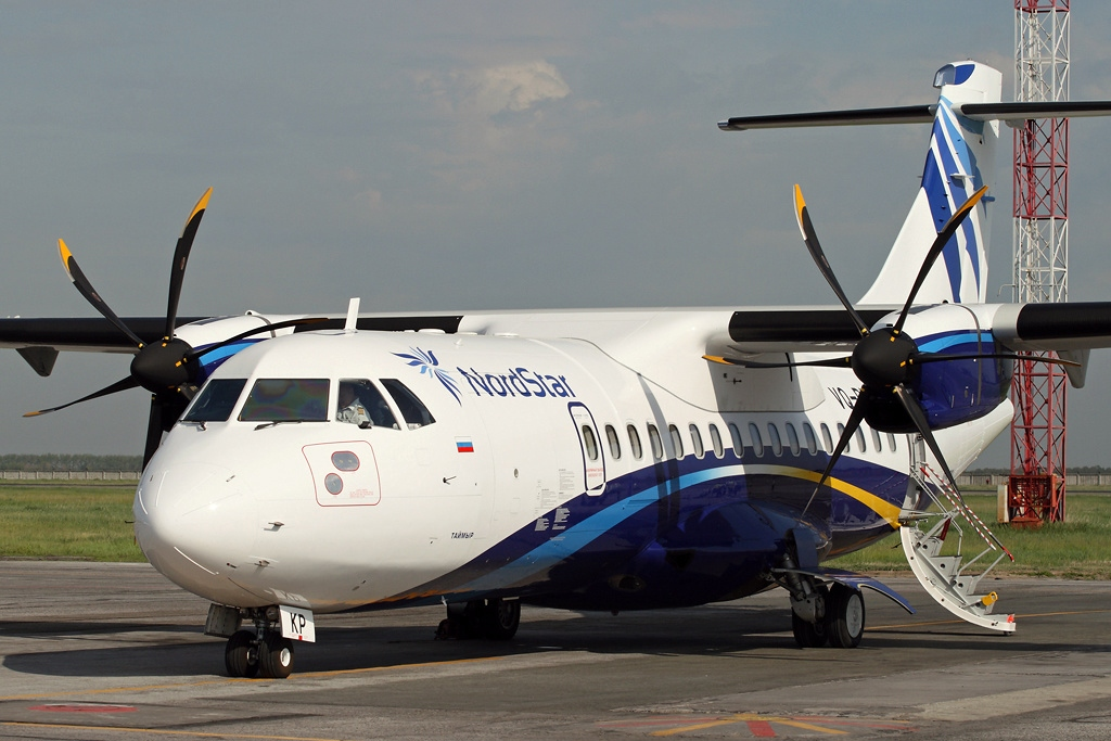 New plane for the airline (old airline name - Taymyr). Just arrival from Krasnoyarsk. First shot in Russia.